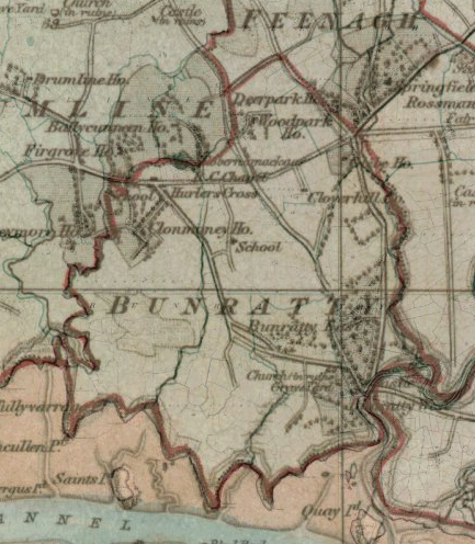 Detail of 1842 Ordnance Survey map of County Clare showing Bunratty parsh